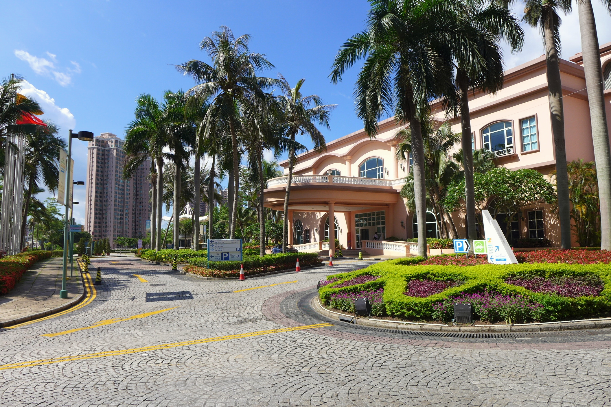 HK GoldCoast Clubhouse